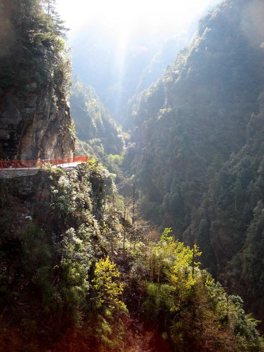 Cangshan mountains showing part of the northern Jade-Cloud Road